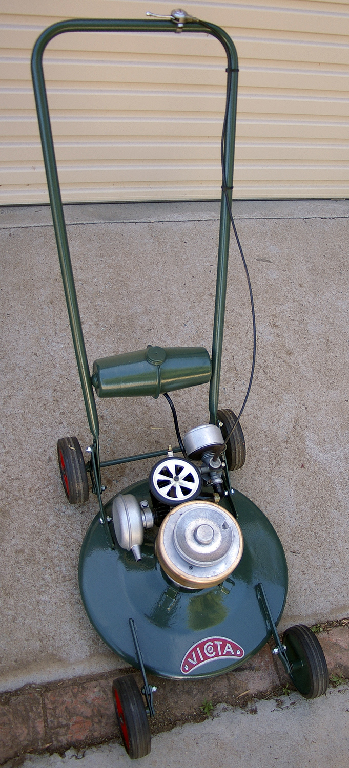 Victa Rotomo Mk 1 (1953-54) which was the 2nd Victa lawn mower with a Villiers Engine. Note that the fan on this mower is not the original 4 spoke metal fan.